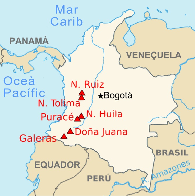 Map of major volcanoes in Colombia. Translated into Catalan.